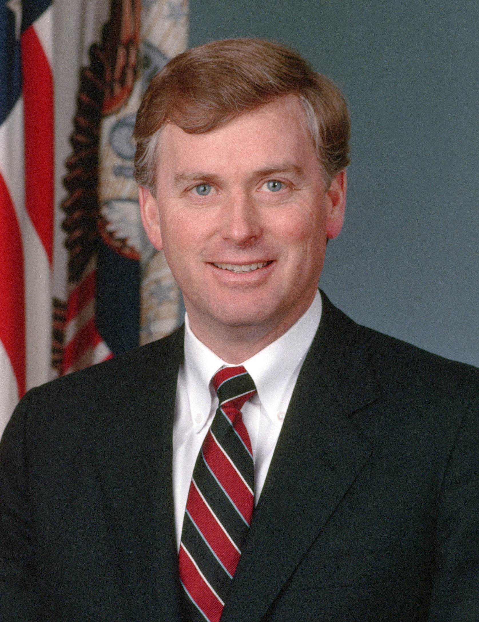 Department of Defense portrait of Vice President Dan Quayle